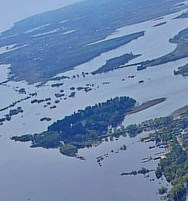 The Peryn isle шт in the period of spring flooding, 2009